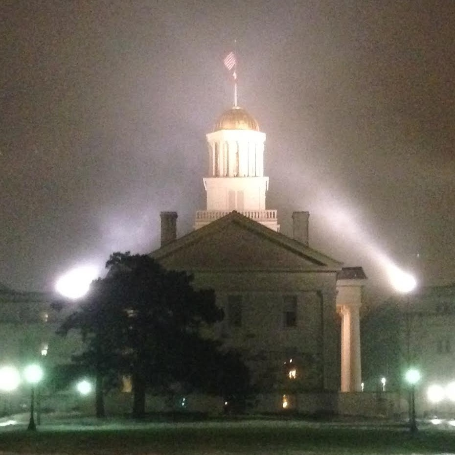 Old Capital Building at night.